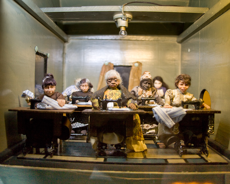 Dolls as sweatshop worker in a factory exhibit at the Great American Dollhouse Museum